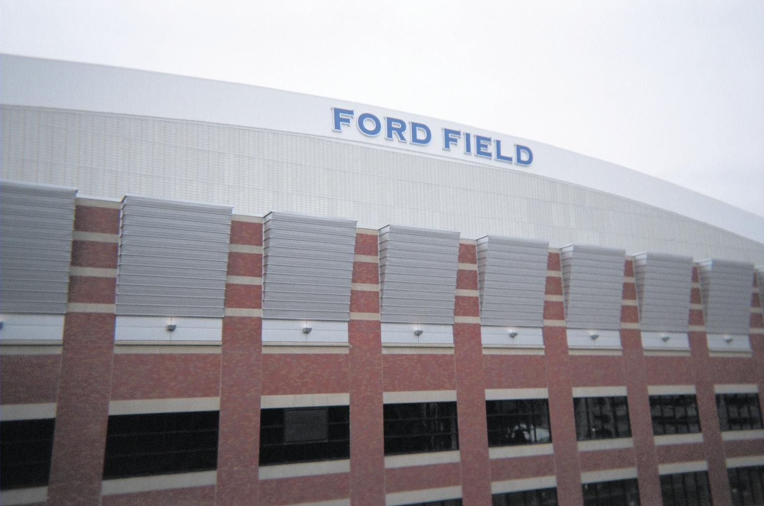 self made by user Category:Images of Detroit, Michigan Category:Images of Michigan